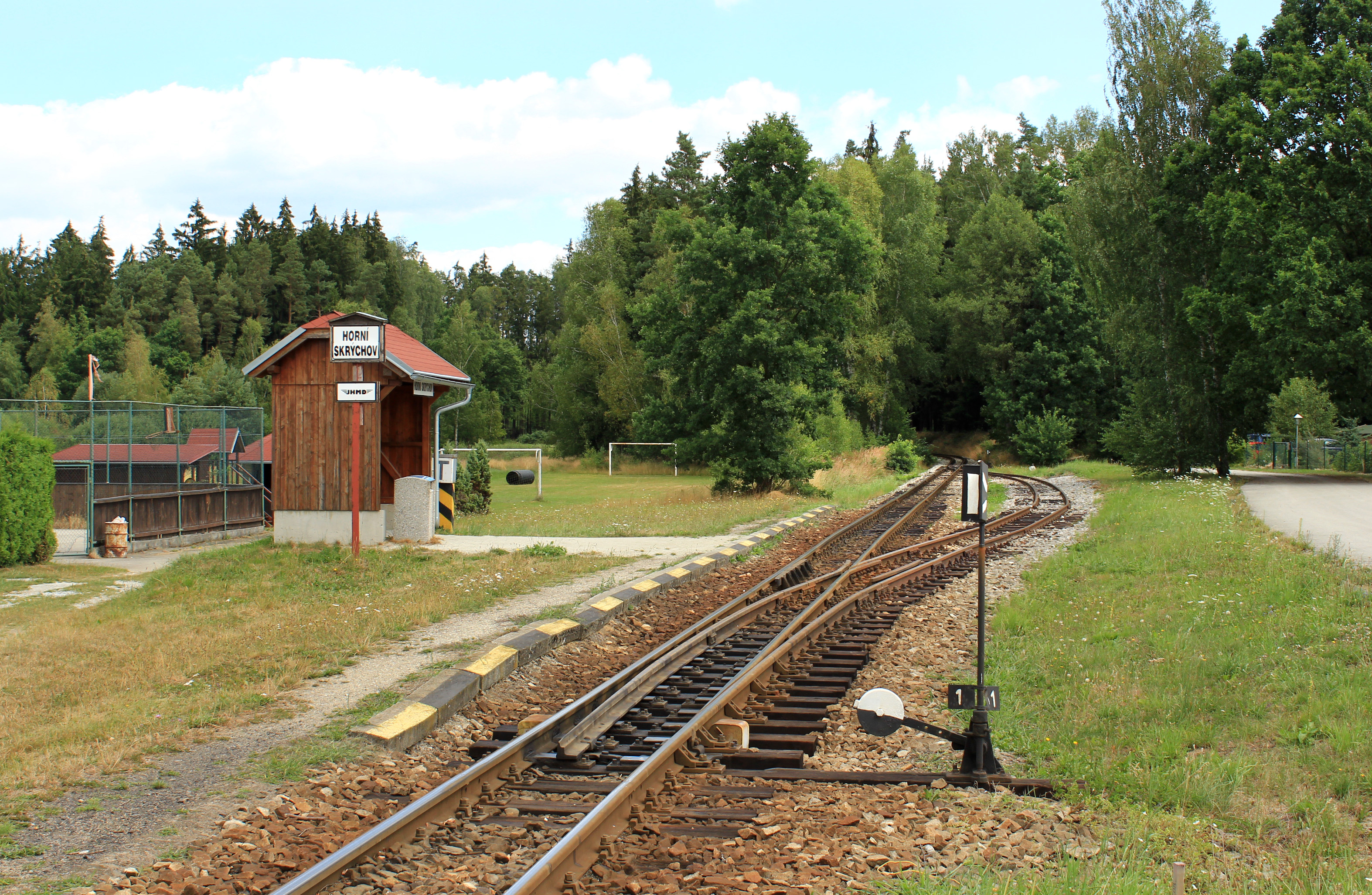 Train station in Horní Skrýchov, Czech Republic.